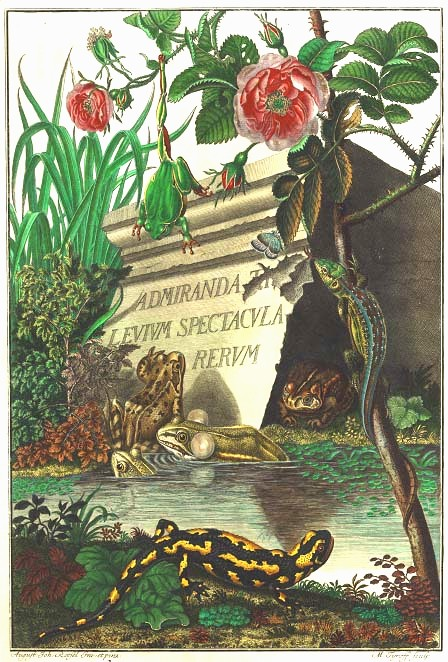 Frontispiz of Historia naturalis ranarum nostratium in qua omnes earum proprietates, praesertim quae ad generationem ipsarum pertinent, fusius enarrantur, Nuremberg: Johann Joseph Fleischmann, 1758